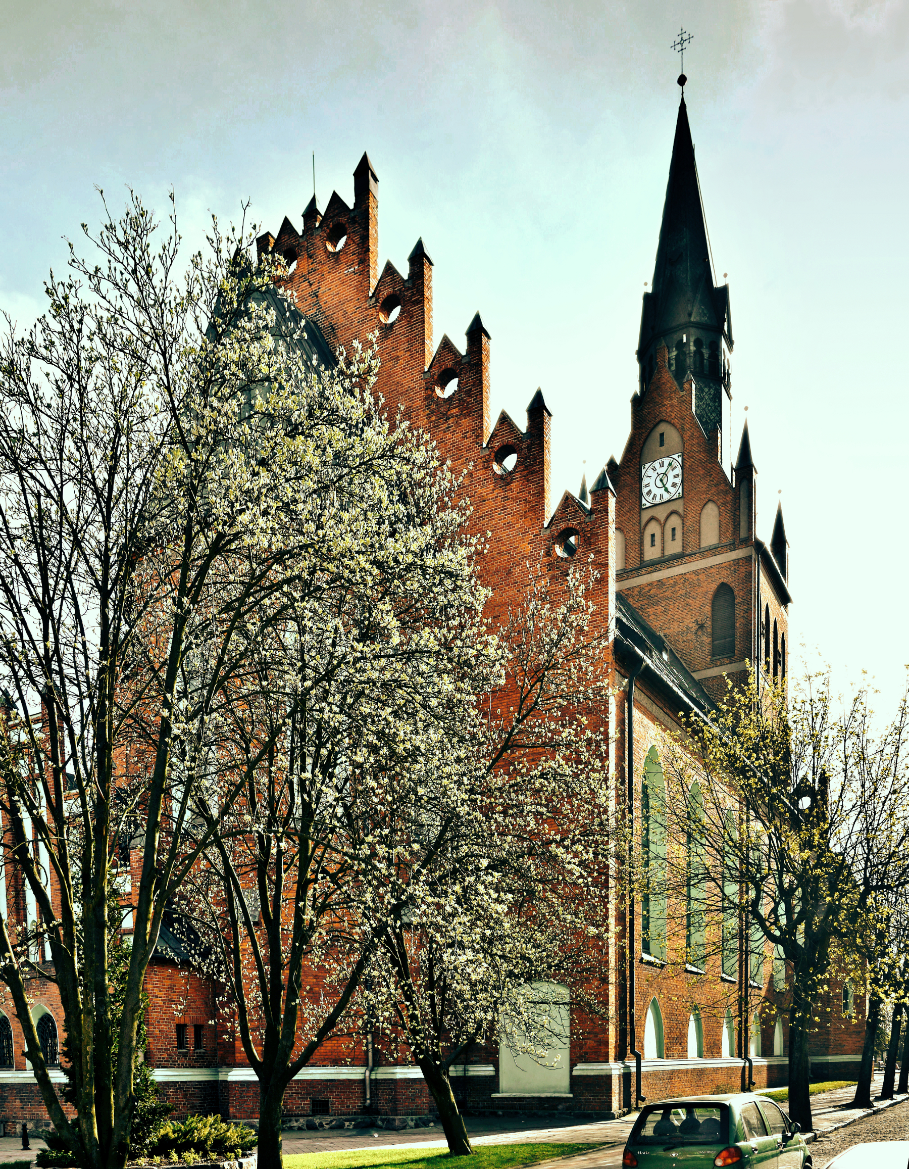 Ełk - a catholic church - the view from Roosevelt St. - April 2012